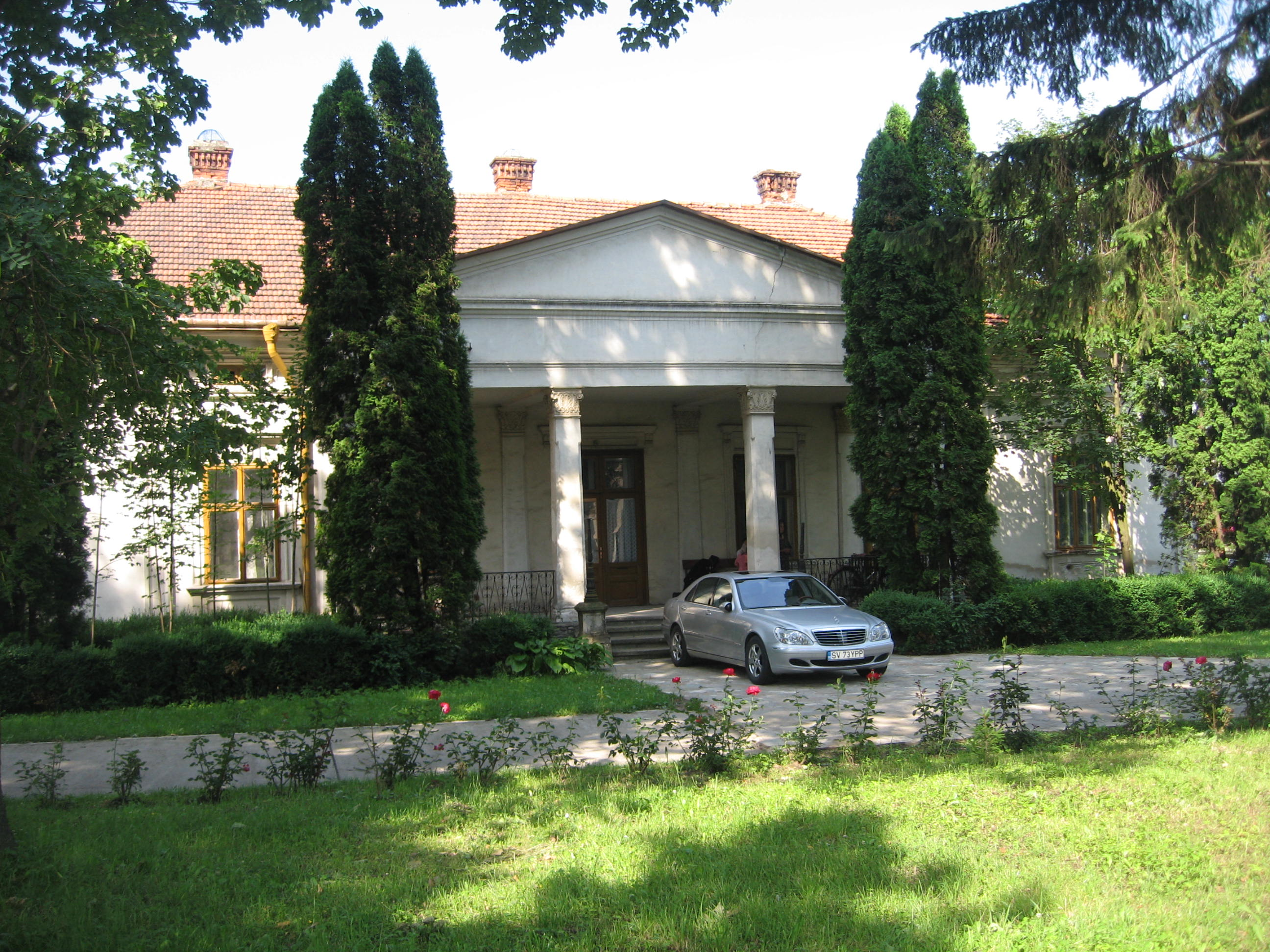 Bogdana